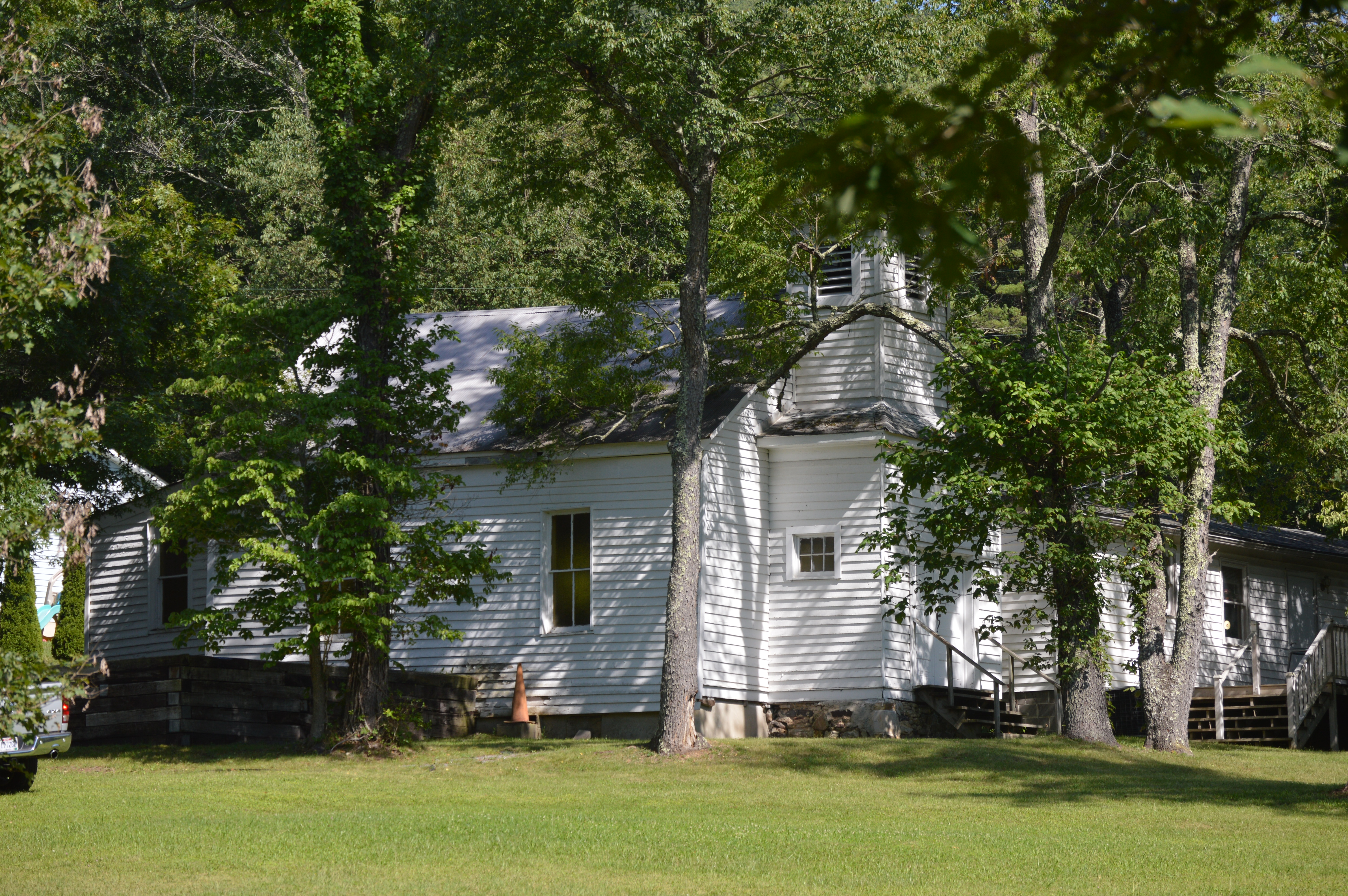 Northwestern side and front of the former John Wesley Methodist Episcopal Church (now the Bath Community Senior Center), located on Warm Springs Drive in West Warm Springs, Virginia, United States. Built in 1873, it is listed on the National Register of Historic Places.